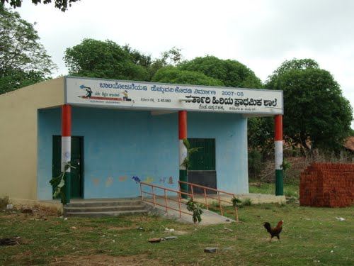 Anganwadi Kendra in Dodda jakkana Halli